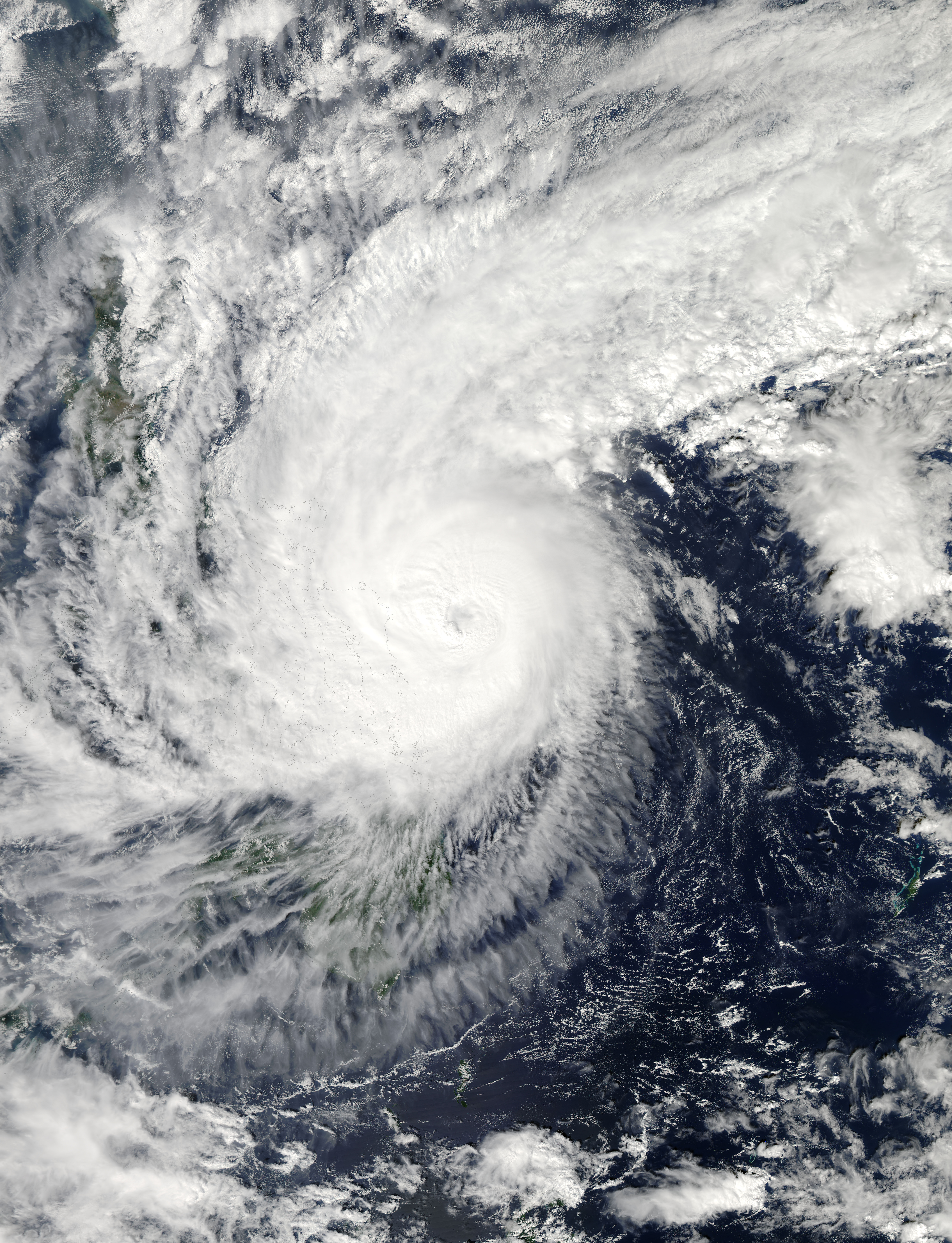 Typhoon Hagupit approaching Samar on December 6, 2014.